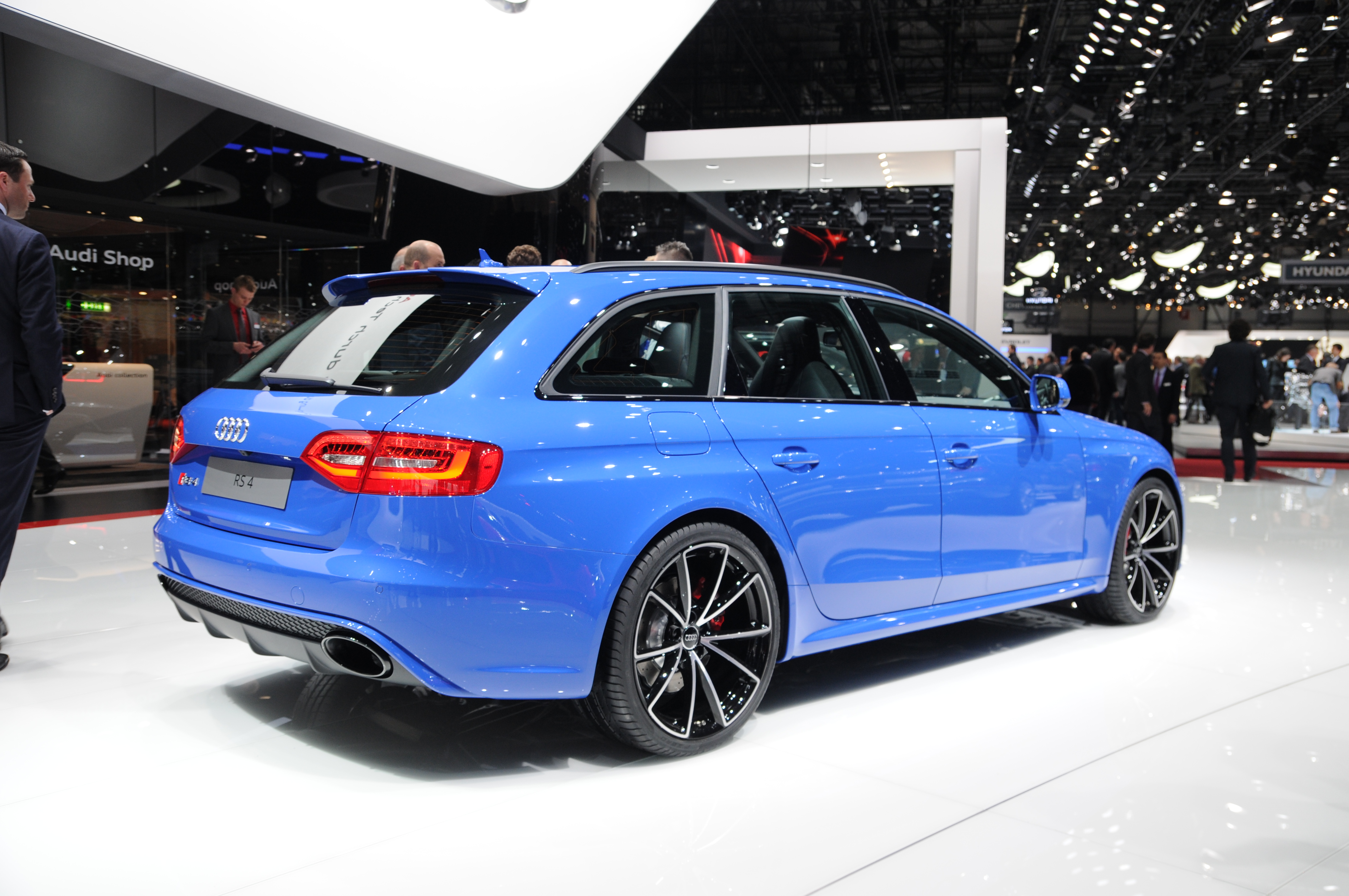 Geneva Motor Show 2014 (photo taken on the first press day)